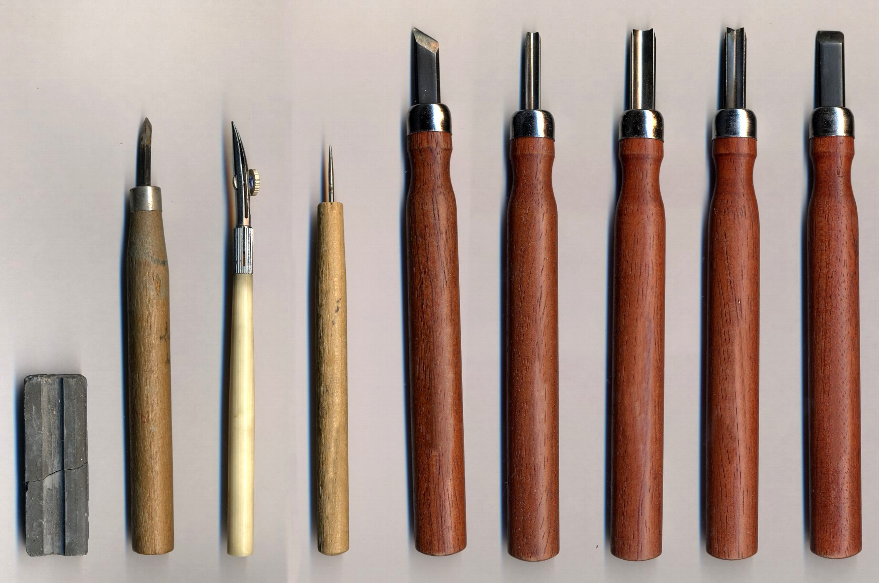 Wood carving tools set